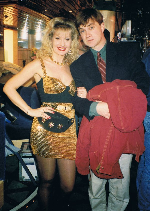 Photograph of Susie Silvey with Harry Enfield